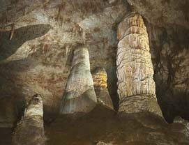 The Hall of Giants stalagmites in the Big Room of the Carlsbad Caverns. National Park Service photo from [1].